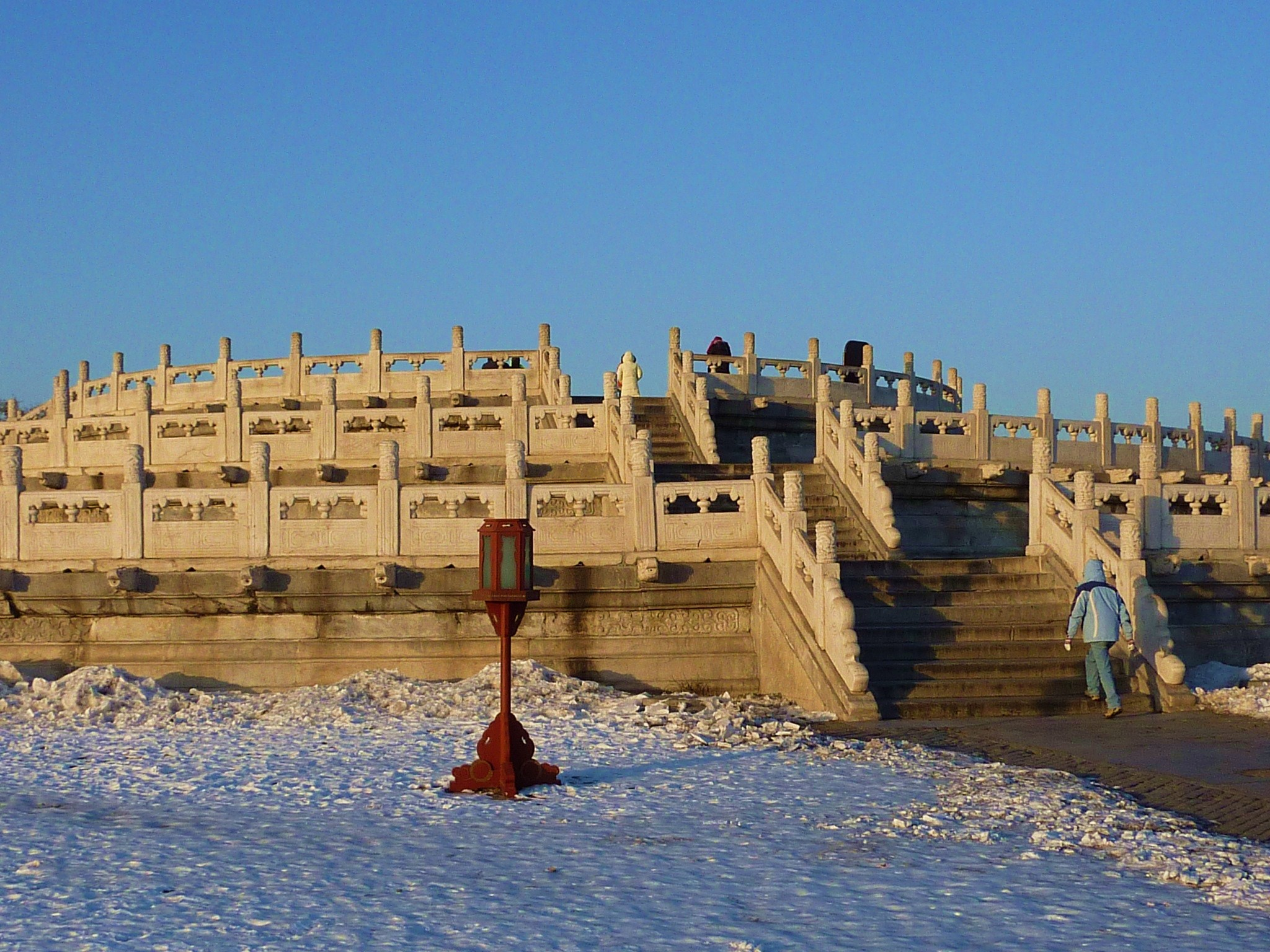 ·˙·ChinaUli2010·.· Beijing - Temple of Heaven Park